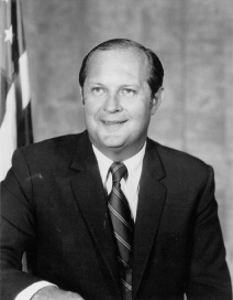 Official EPA portrait of former administrator Doug M. Costle.